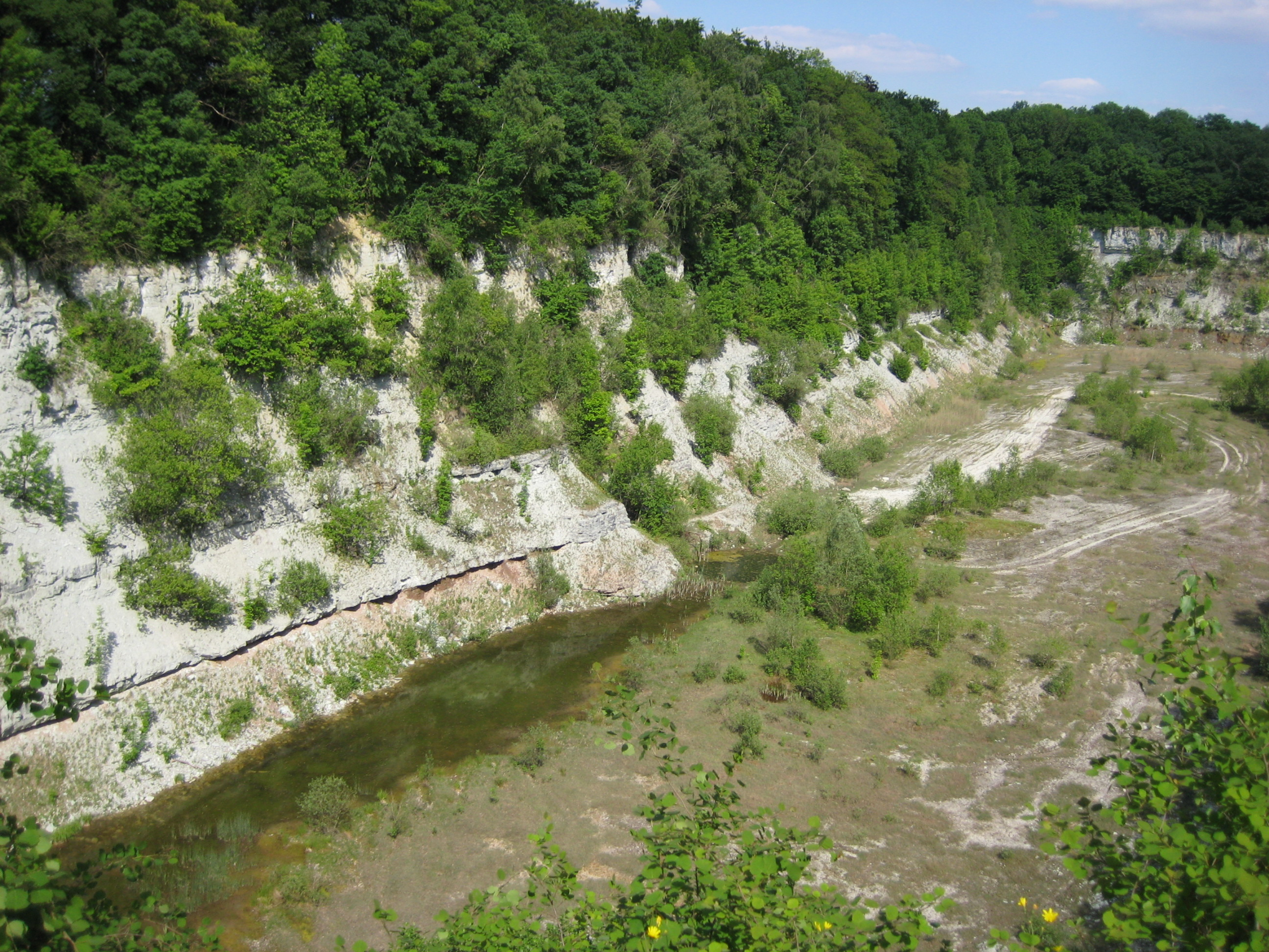 Steengroeve Winterswijk